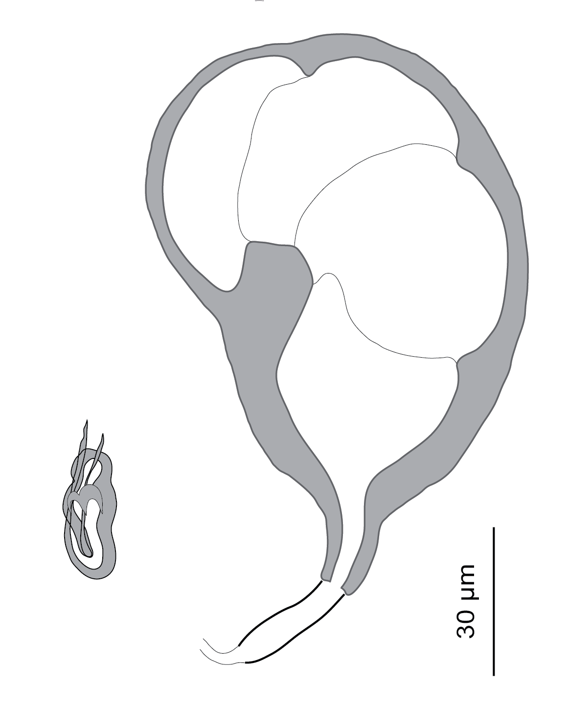 Pseudorhabdosynochus regius Chaabane, Neifar & Justine, 2015 (Monogenea, Diplectanidae) from the mottled grouper Mycteroperca rubra (Teleostei) Figures 2B-2C of paper. Left: sclerotised vagina. Right: sclerotised male copulatory organ.